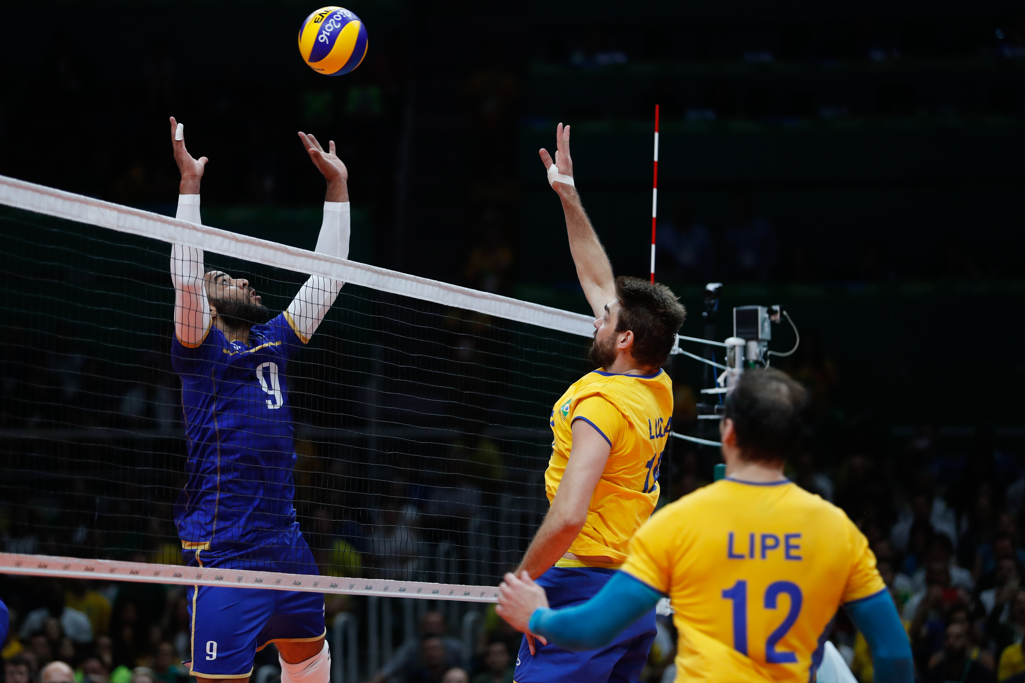 Rio de Janeiro - Seleção brasileira masculina de vôlei vence a da França por 3 sets a 1 no Maracanãzinho e vai às quartas-de-final ( Fernando Frazão/Agência Brasil)